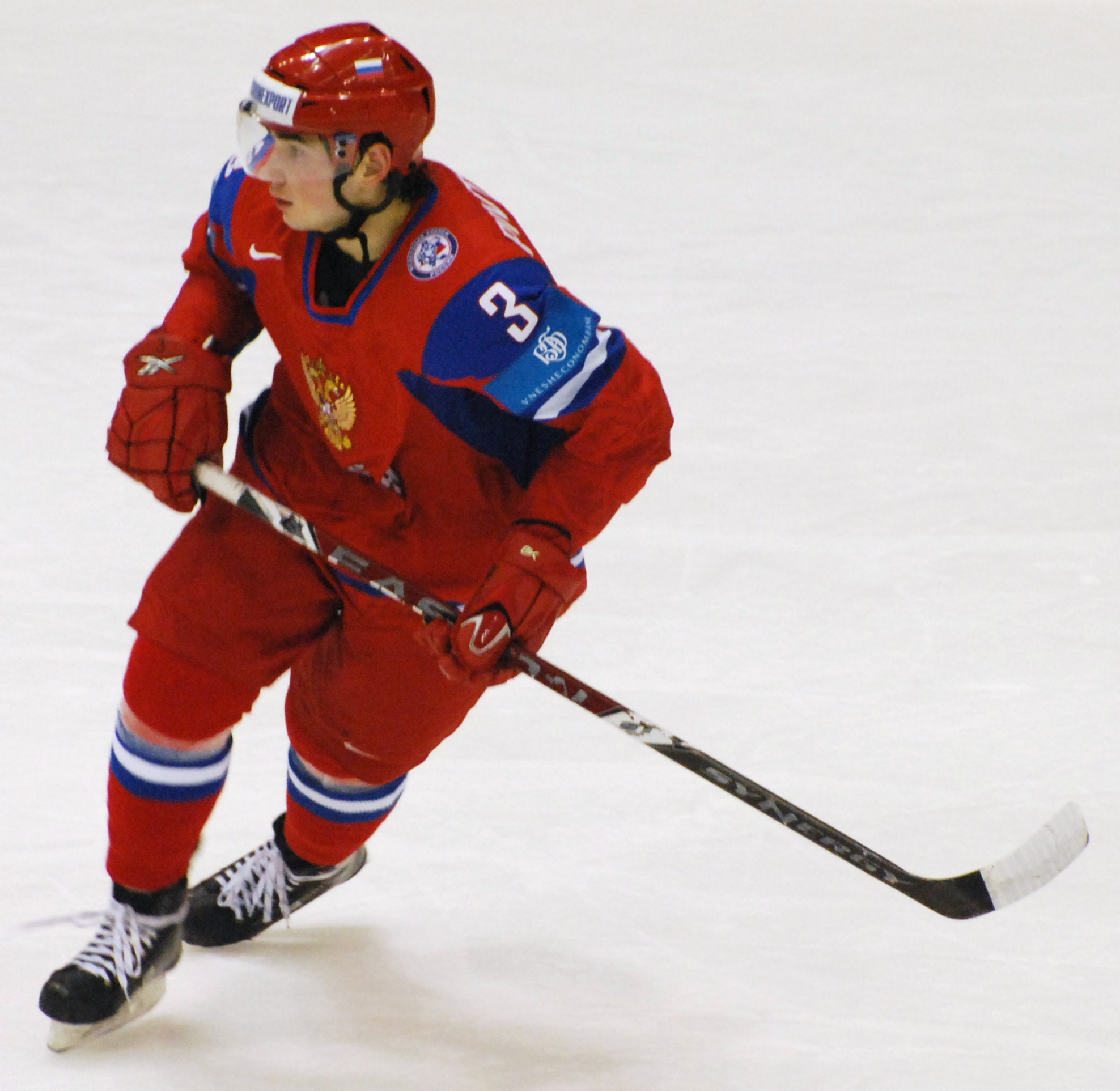 Nikita Pivtsakin during a game at the 2010 World Junior Hockey Championships.